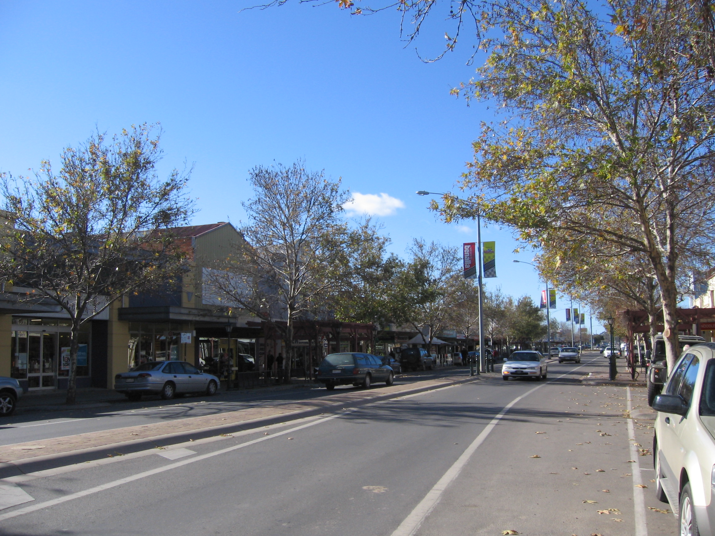 Main street of Benalla, Victoria